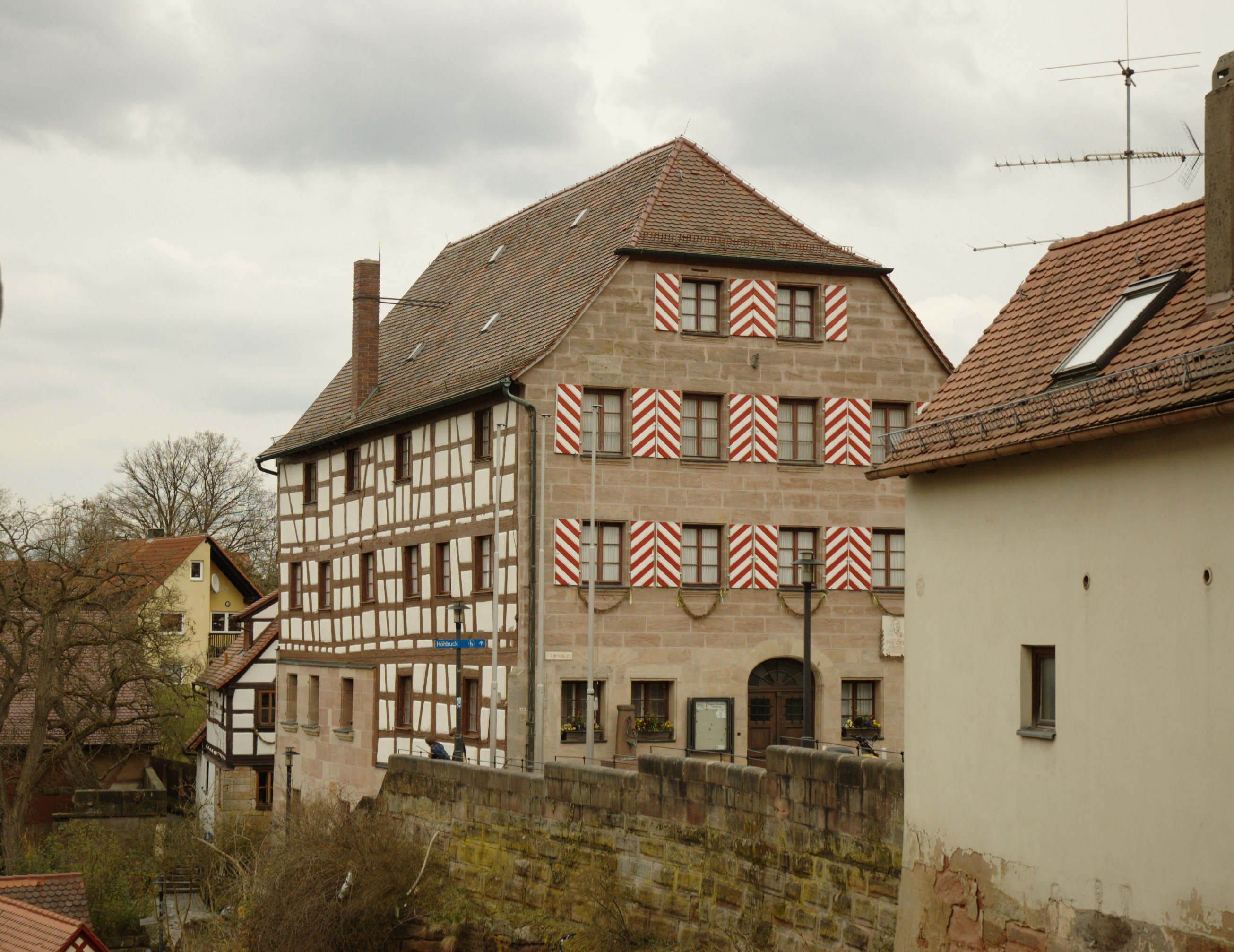 Cadolzburg, former town hall, now Museum of Local History of the Rangau (Pisendelplatz 1)